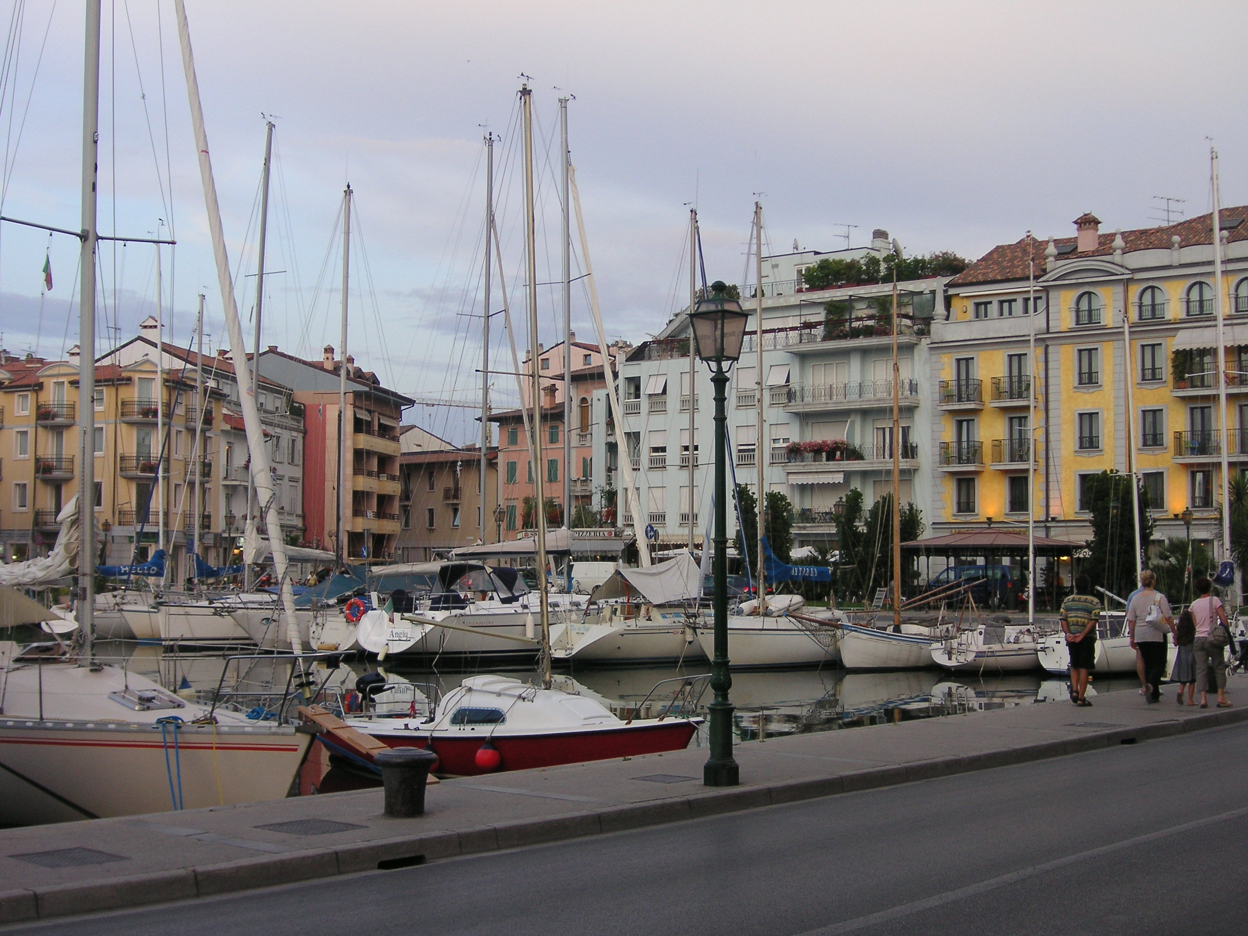 Grado, Italy. July 2006. Photo by KF.